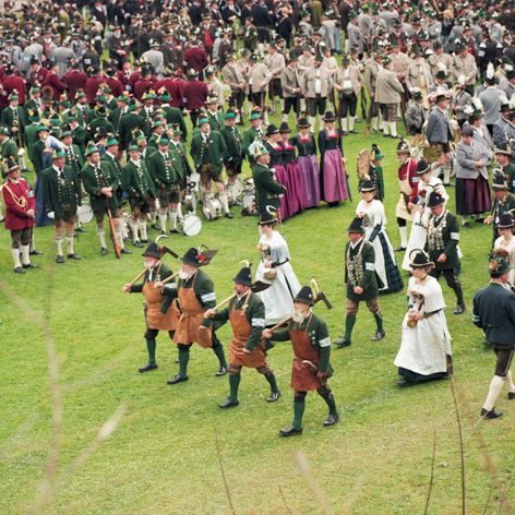 Tradition in Bavaria (Germany). Gebirgsschützentreffen am Patronatstag in Bayrischzell. Photograph from the series Homeland, published in: Bohnenstengel, A. (2002): Bayern, Page 72–75